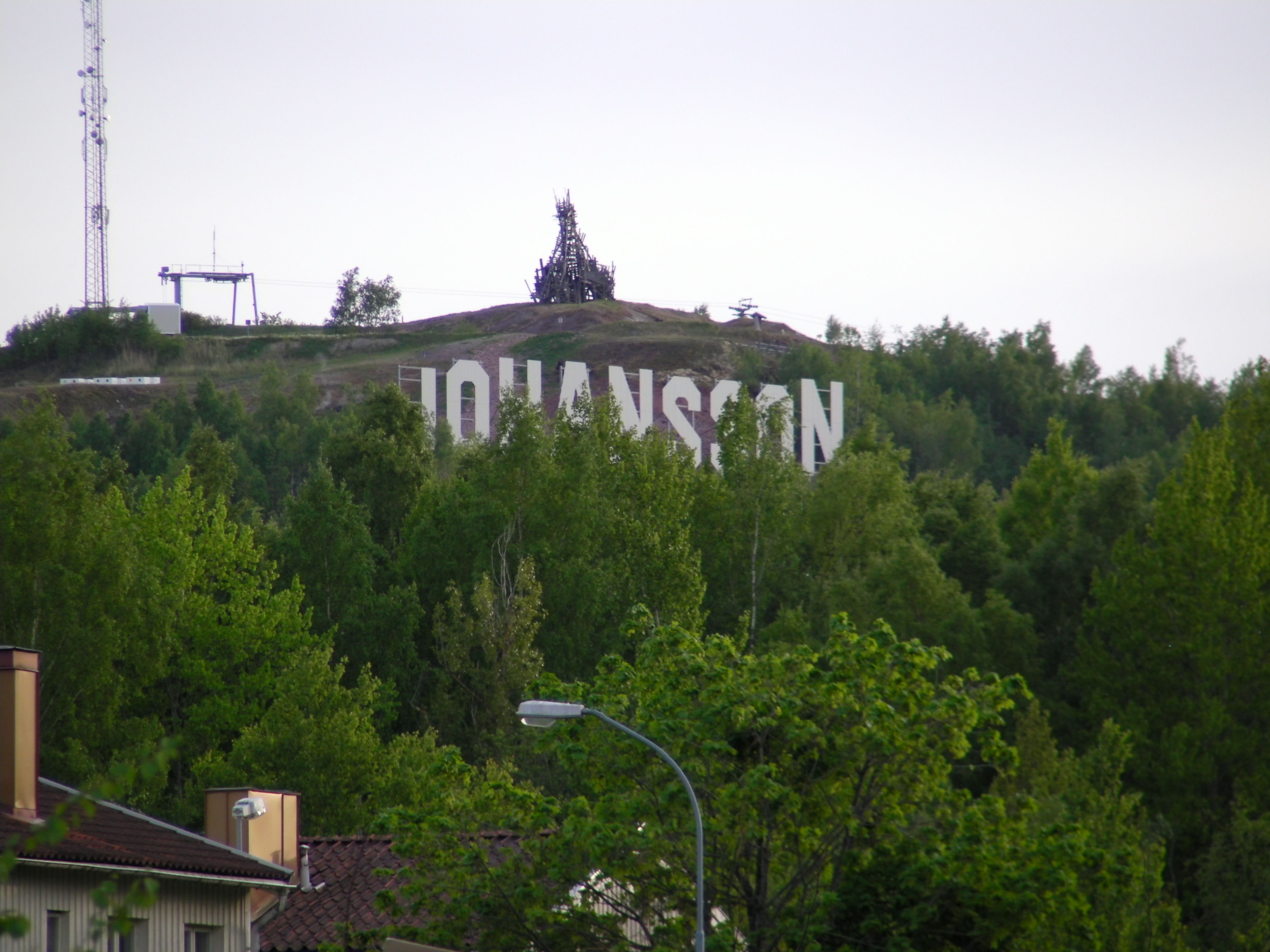 Eponymous "Hollywood"-style lettering constructed in 2006 by Peter Johansson.